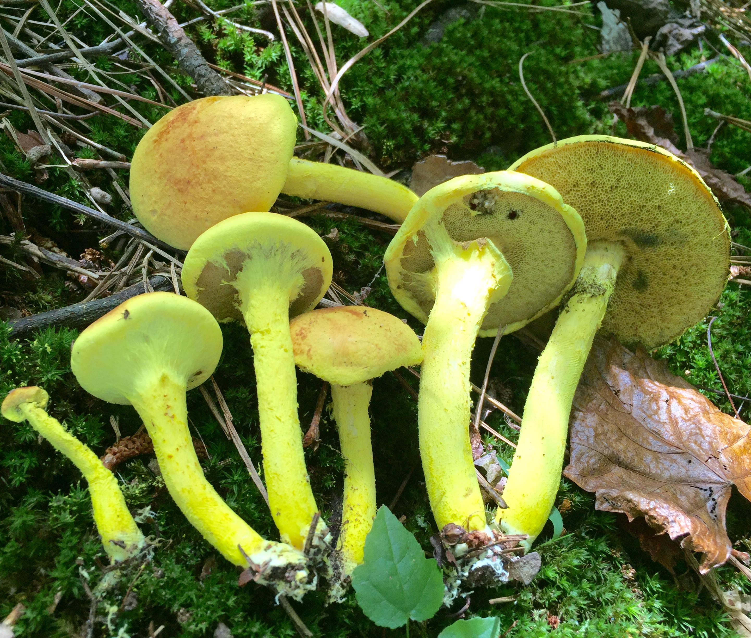 Pulveroboletus ravenelii (Berk. & M.A. Curtis) Murrill Image location: Simpsonwood Retreat Center, Peachtree Corners, Georgia, USA Recognized by sight Based on microscopic features For more information about this, see the observation page at Mushroom Observer.